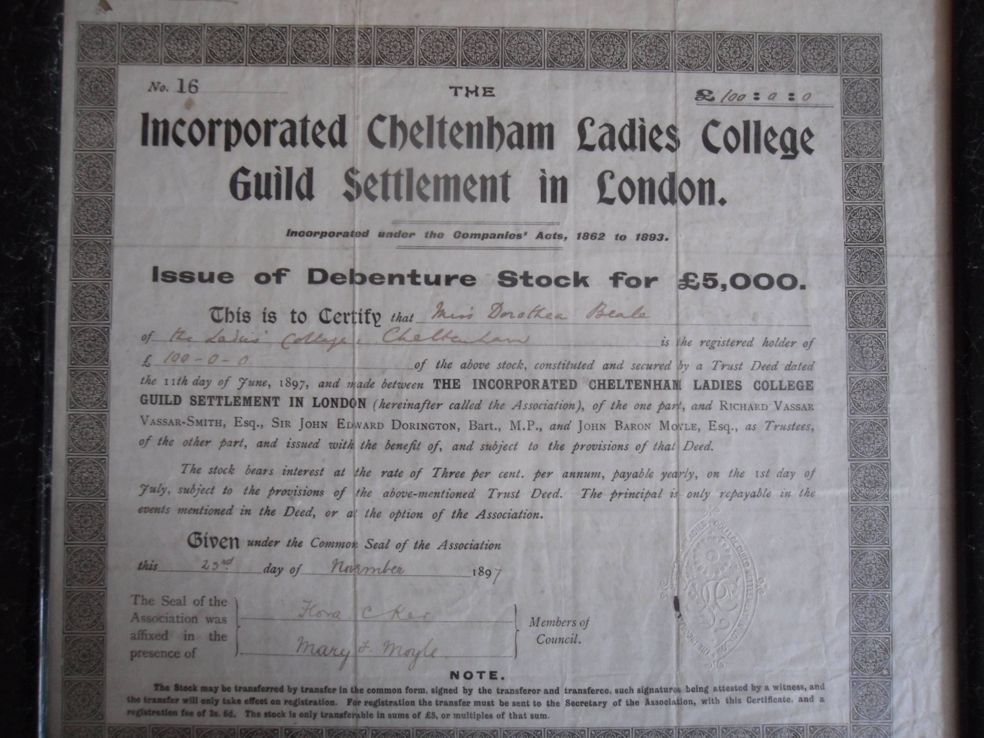 Dorothea Beales' £100 stock in the Incorporated Cheltenham Ladies' College Guild Settlement in London. Dated 25th November 1897